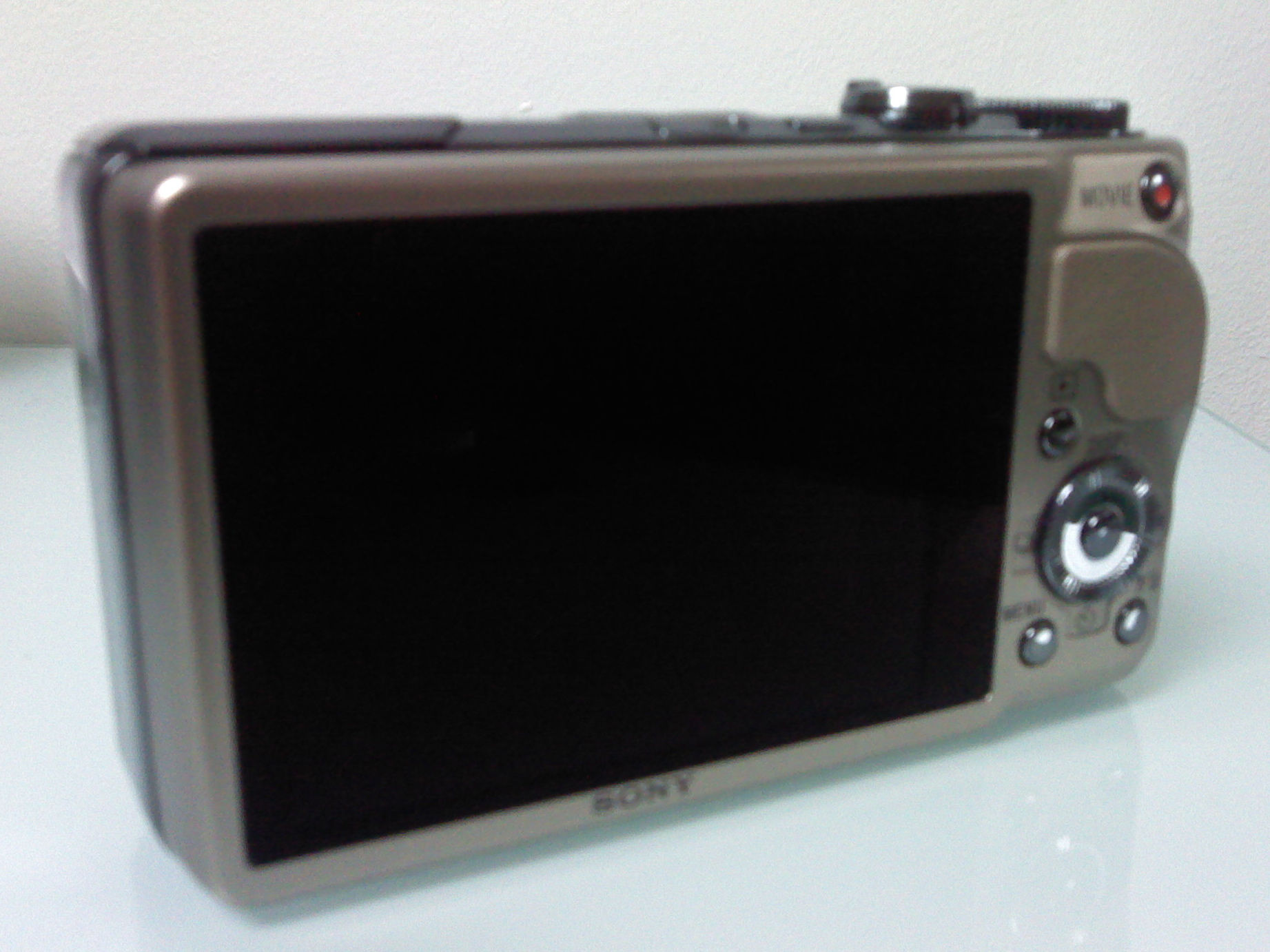 Sony DSC-HX9V (back)